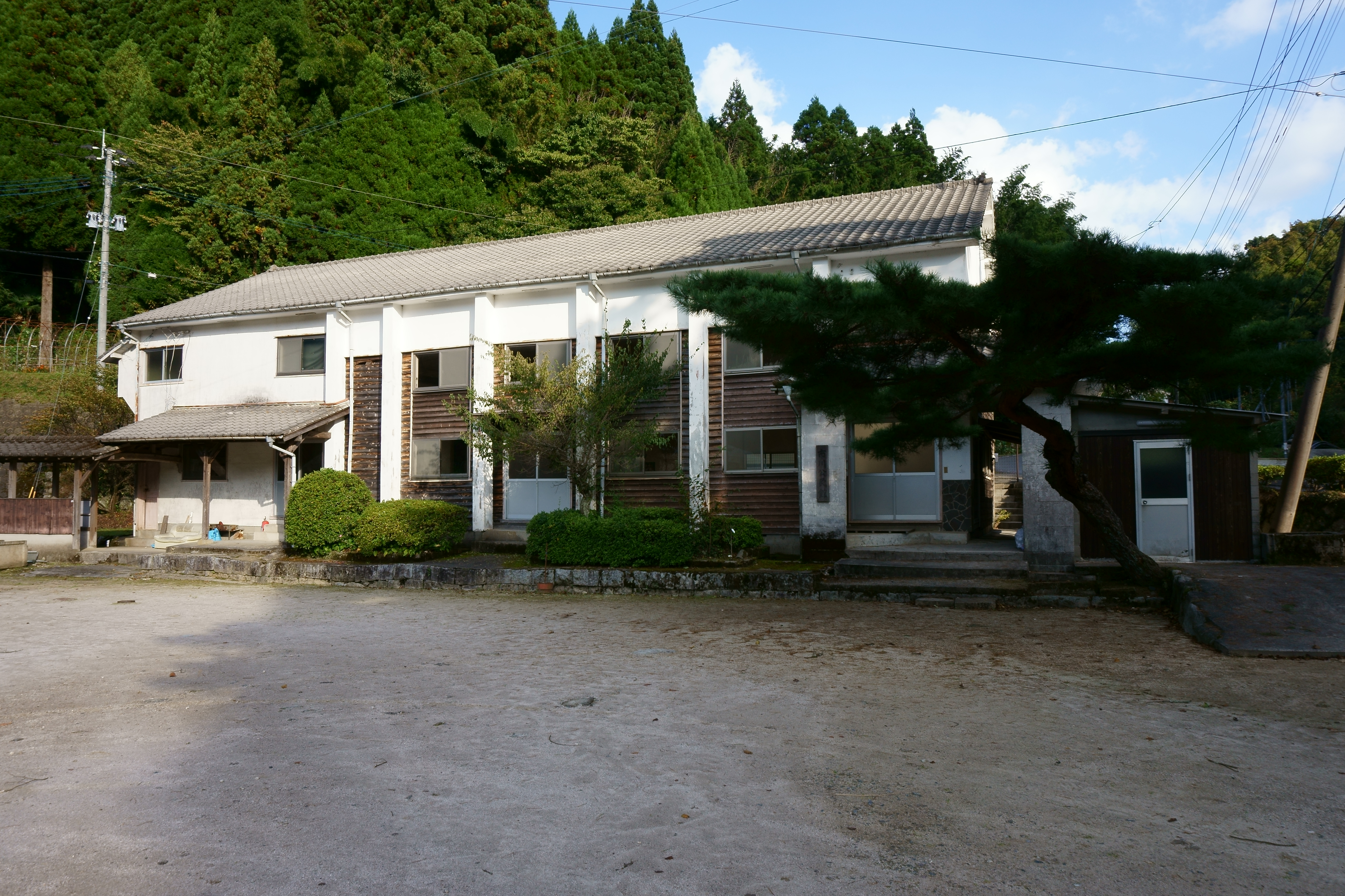 Ichikawa Public Hall in Ichikawa, Fuji-cho, Saga city, Saga prefecture. It was Ichikawa Elementary School until 1975.